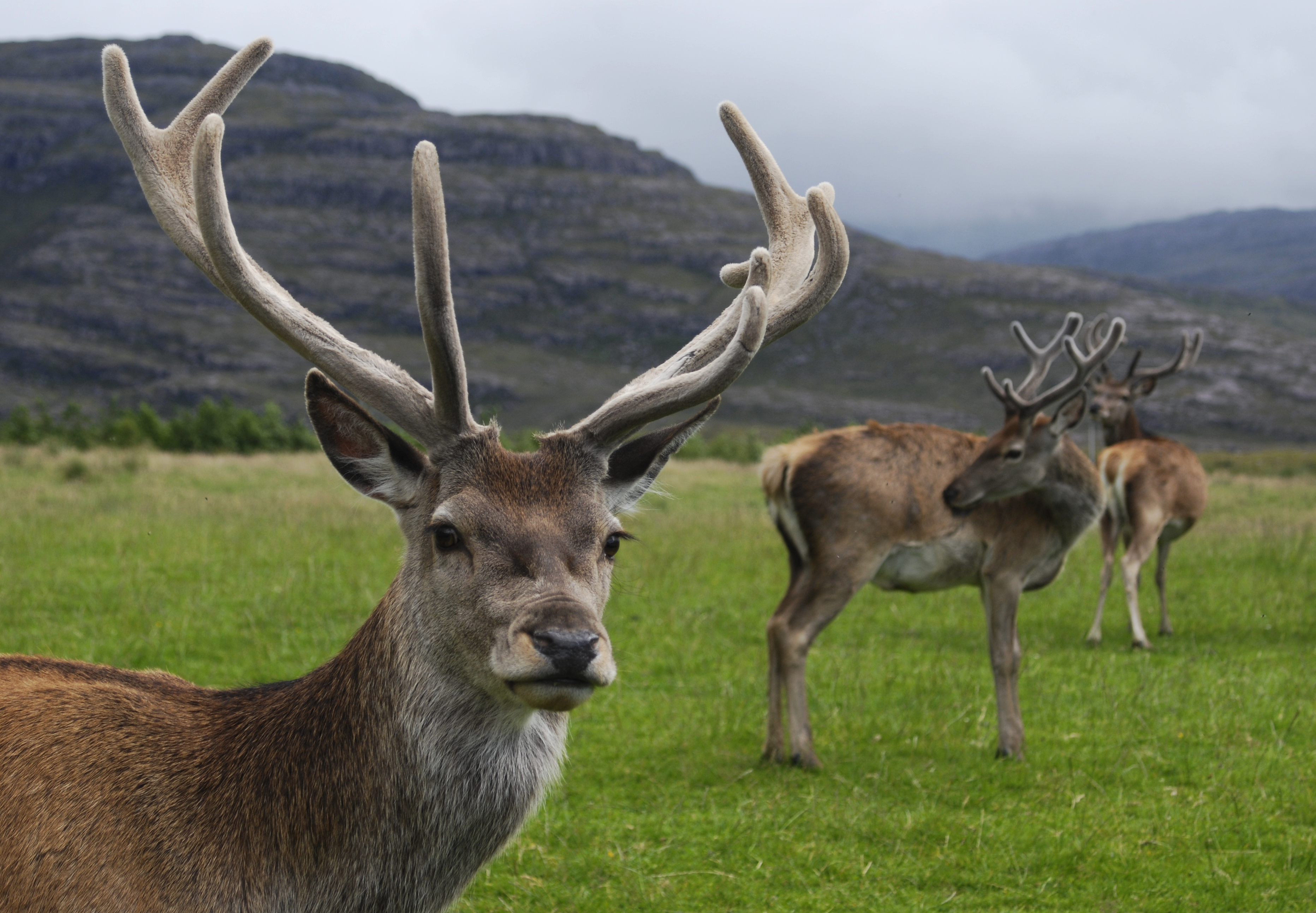 Red deer stag (Cervus elaphus) with velvet antlers in Glen Torridon, Scotland